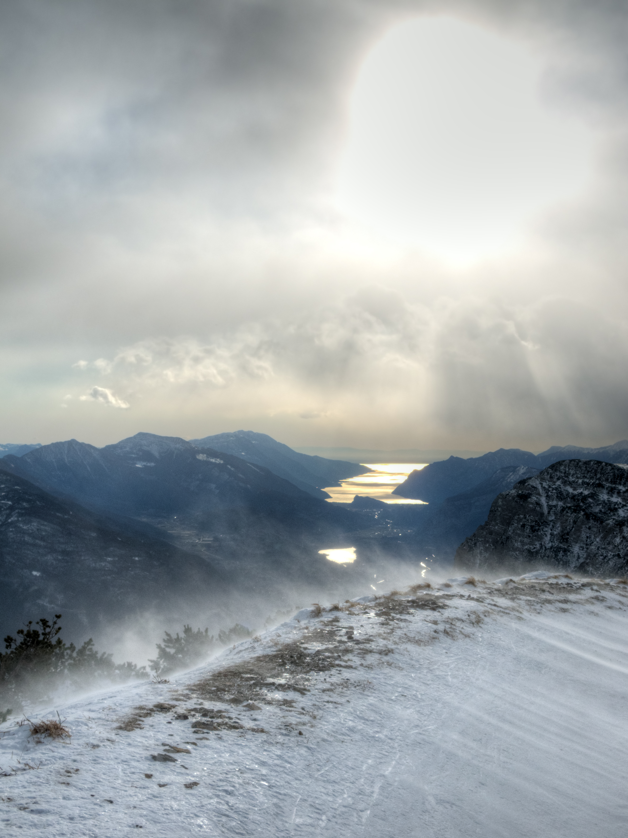 Garda Lake - Cima Paganella, Terlago, Trento, Italy